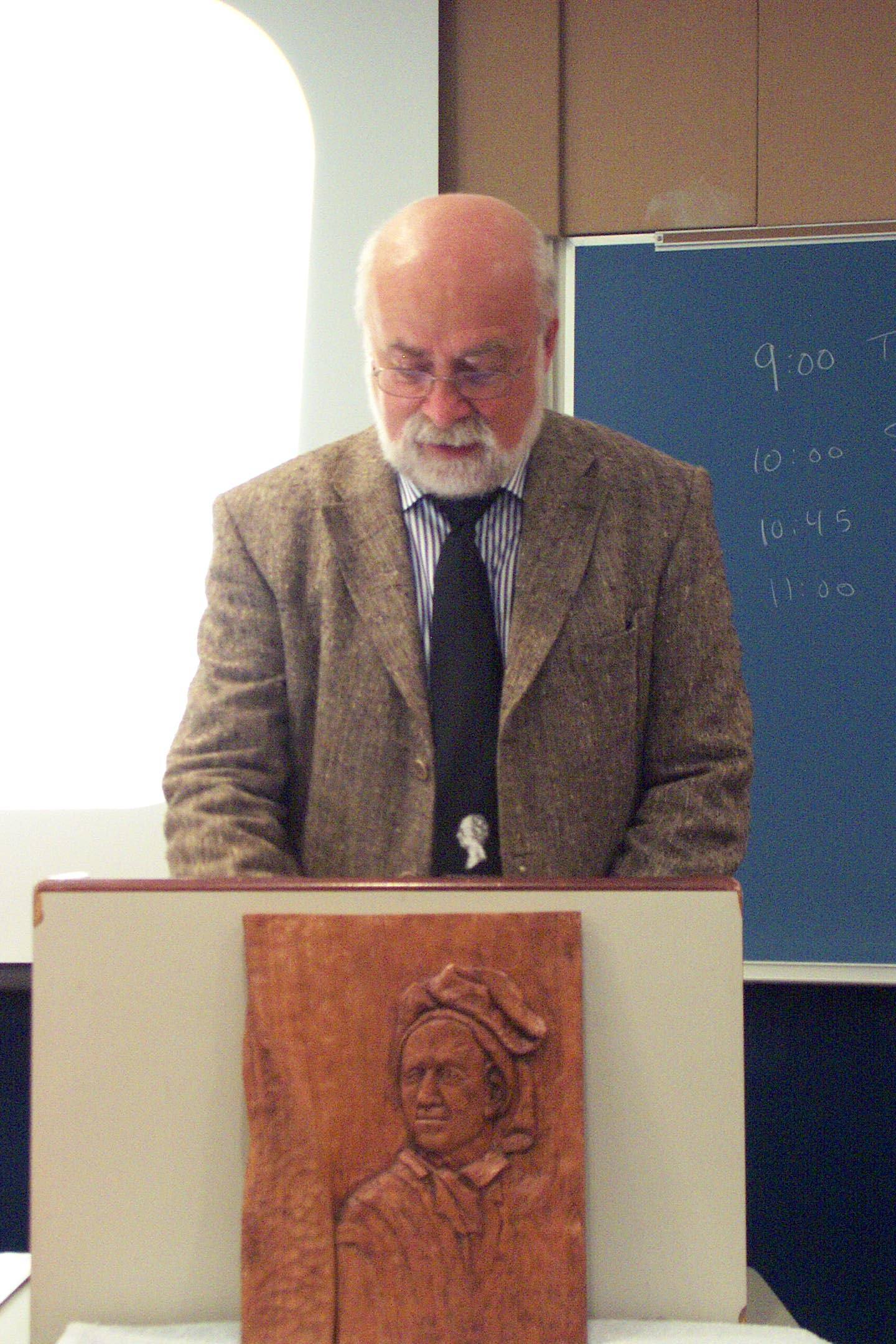 Picture of the mathematician and historian of mathematics Ruediger Thiele, taken during a lecture on the history of functions at the 7th Annual Meeting of the Euler Society.